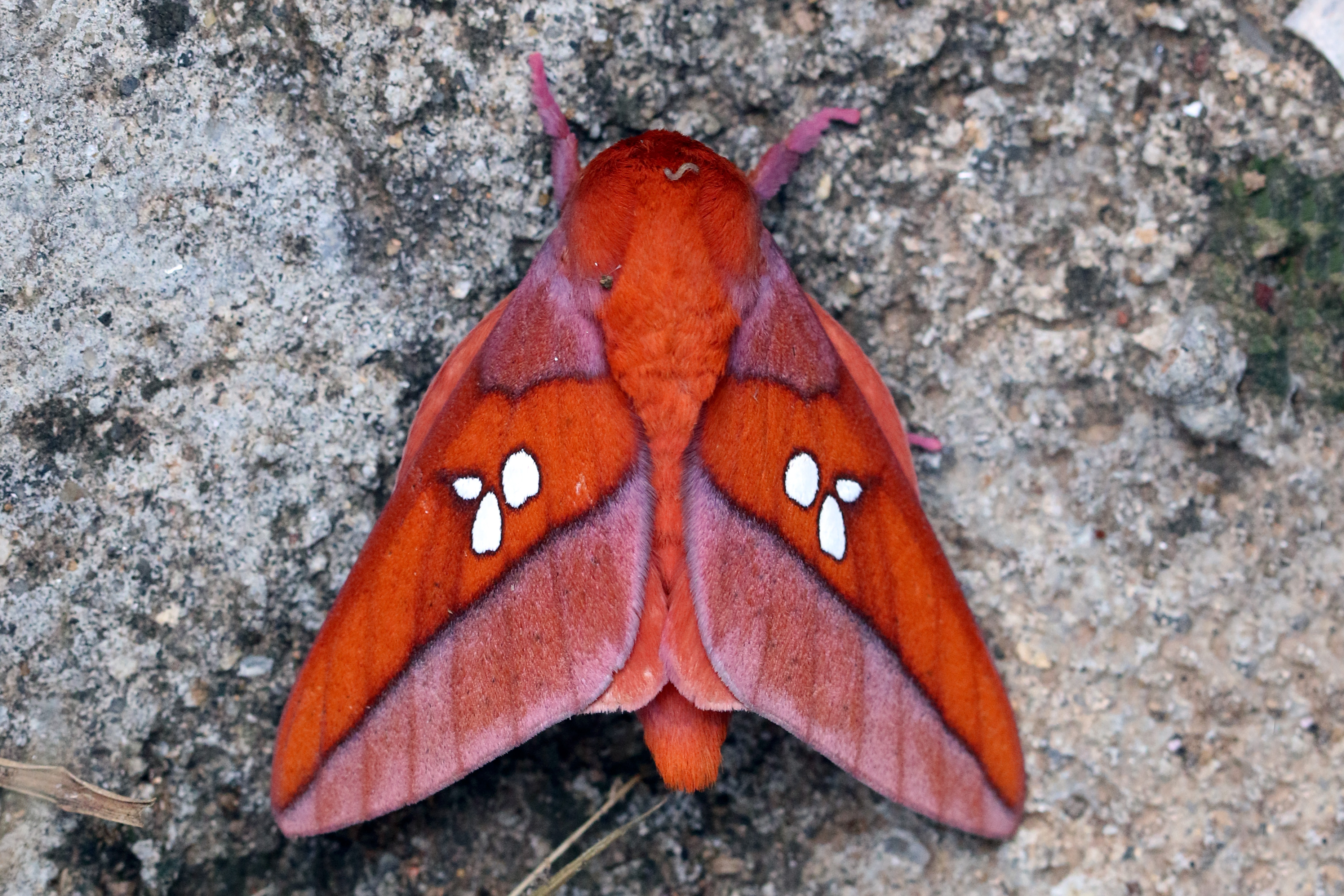 Giant silk moth (Adelowalkeria tristygma), Ceratocampinae, São Paulo, Brazil